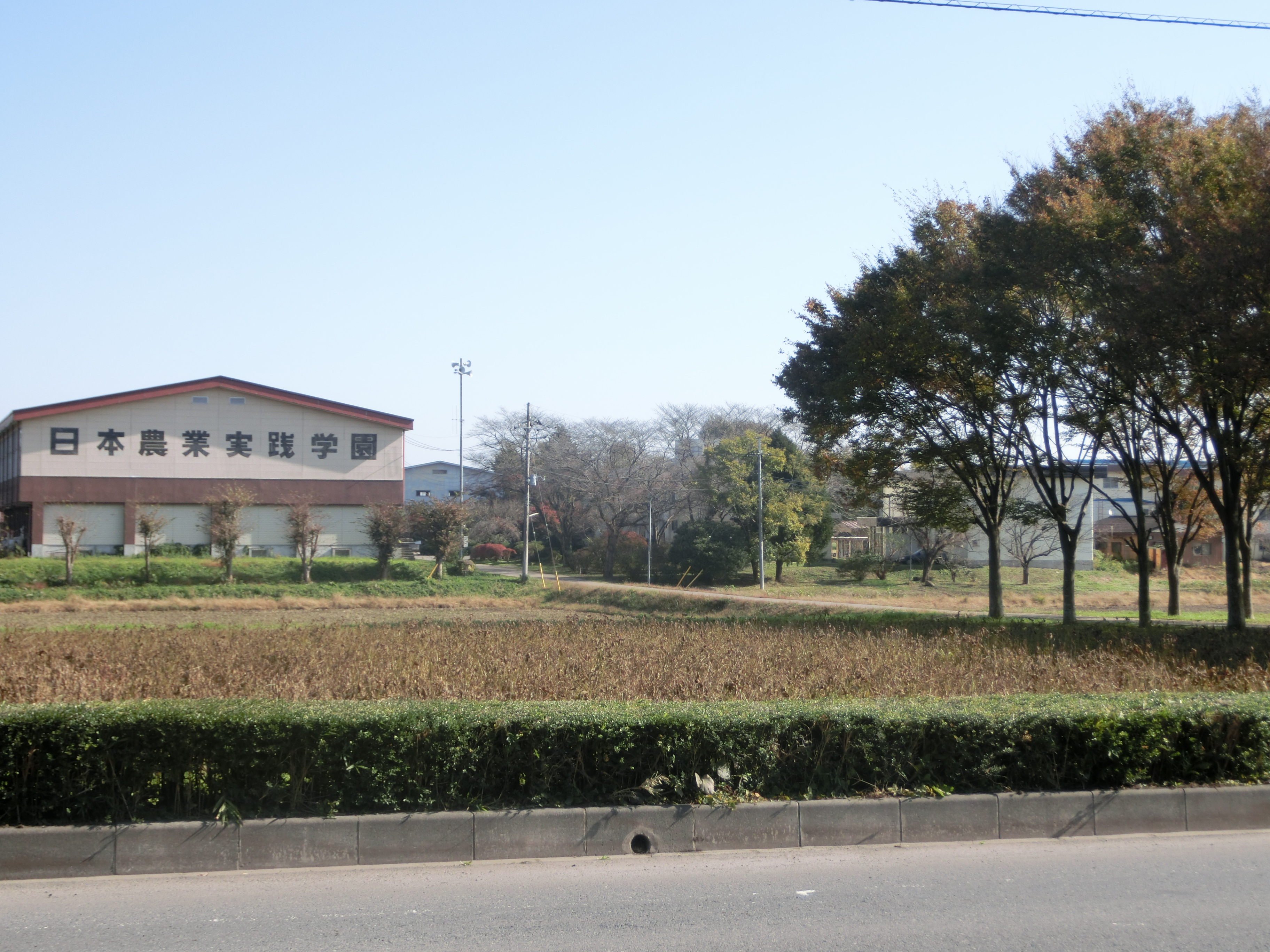 Nihon Nogyo Jissen Gakuen